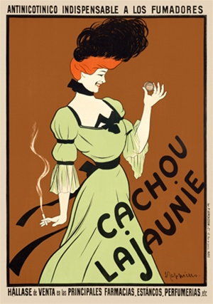 Poster Cachou Lajaunie